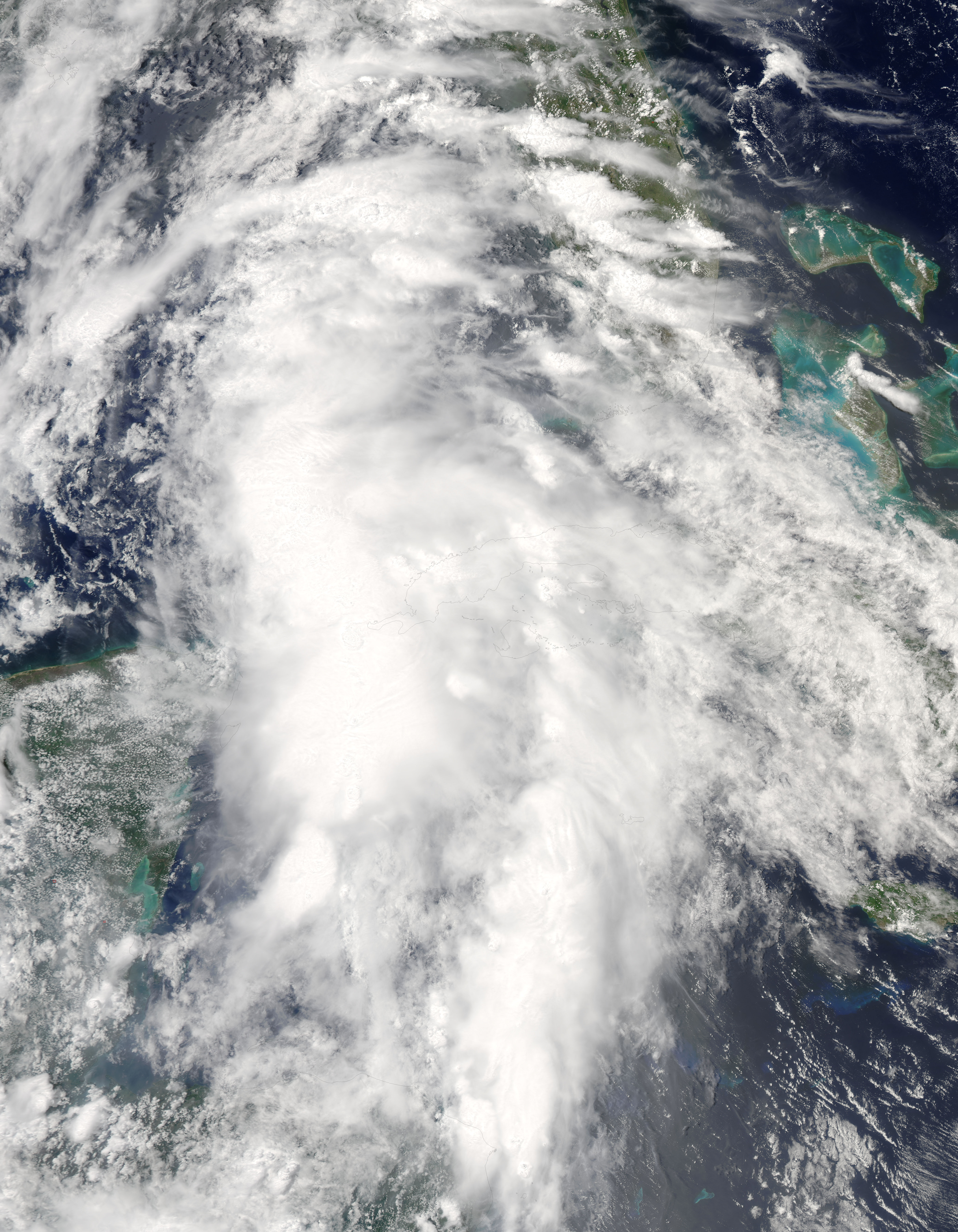 Tropical Storm Colin (03L) over the Gulf of Mexico